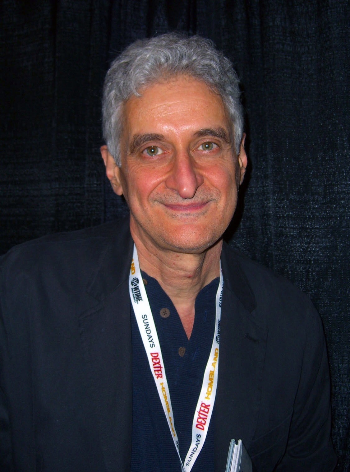 Comics creator Patrick McDonnell on Day 4 of the 2012 New York Comic Con, Sunday October 14, 2012 at the Jacob K. Javits Convention Center in Manhattan. This photo was created by Luigi Novi. It is not in the public domain, and use of this file outside of the licensing terms is a copyright violation.